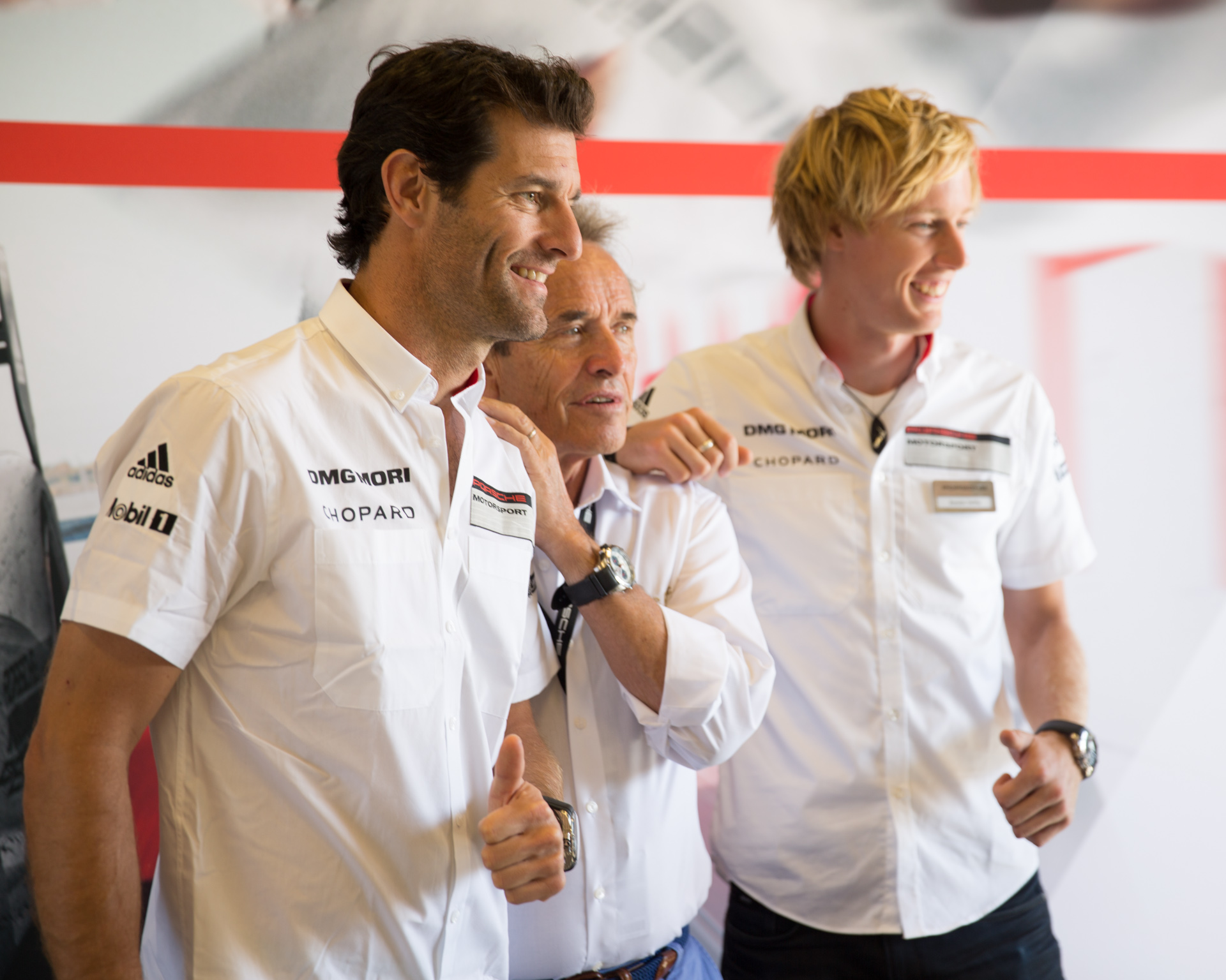 Mark Webber, Jacky Ickx and Brendon Hartley on the Rennsport Reunion V